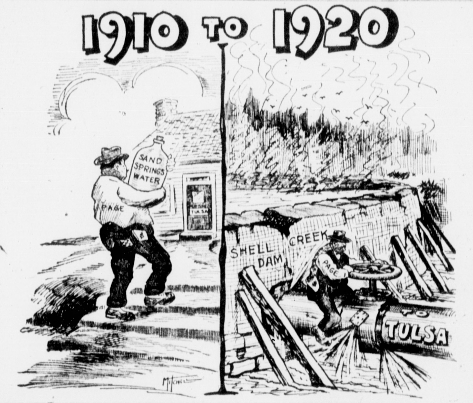 Coverage of the Spavinaw Water Project the Tulsa World newspaper (owned by Eugene Lorton)